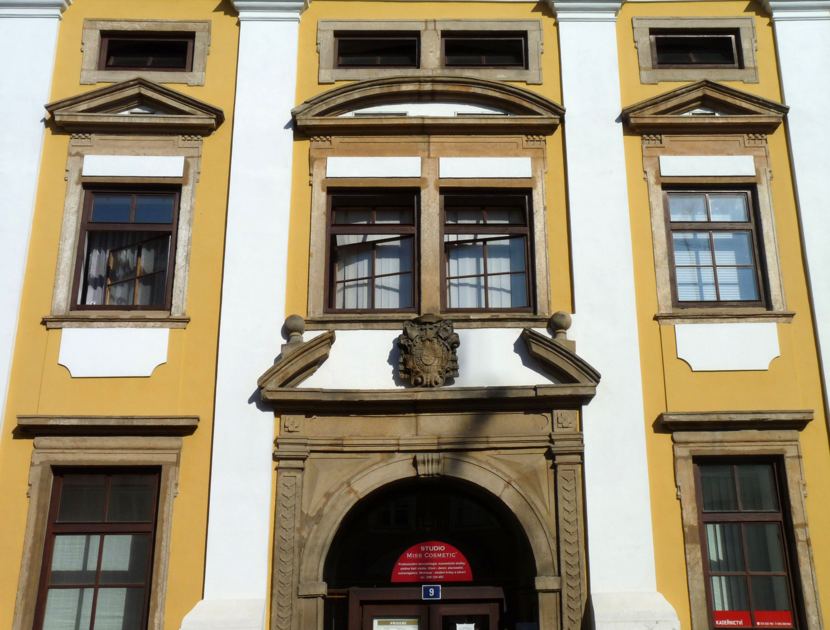 Detail of the facade of the Jewish town hall in the town of Kroměříž, Zlín Region, Czech Republic.